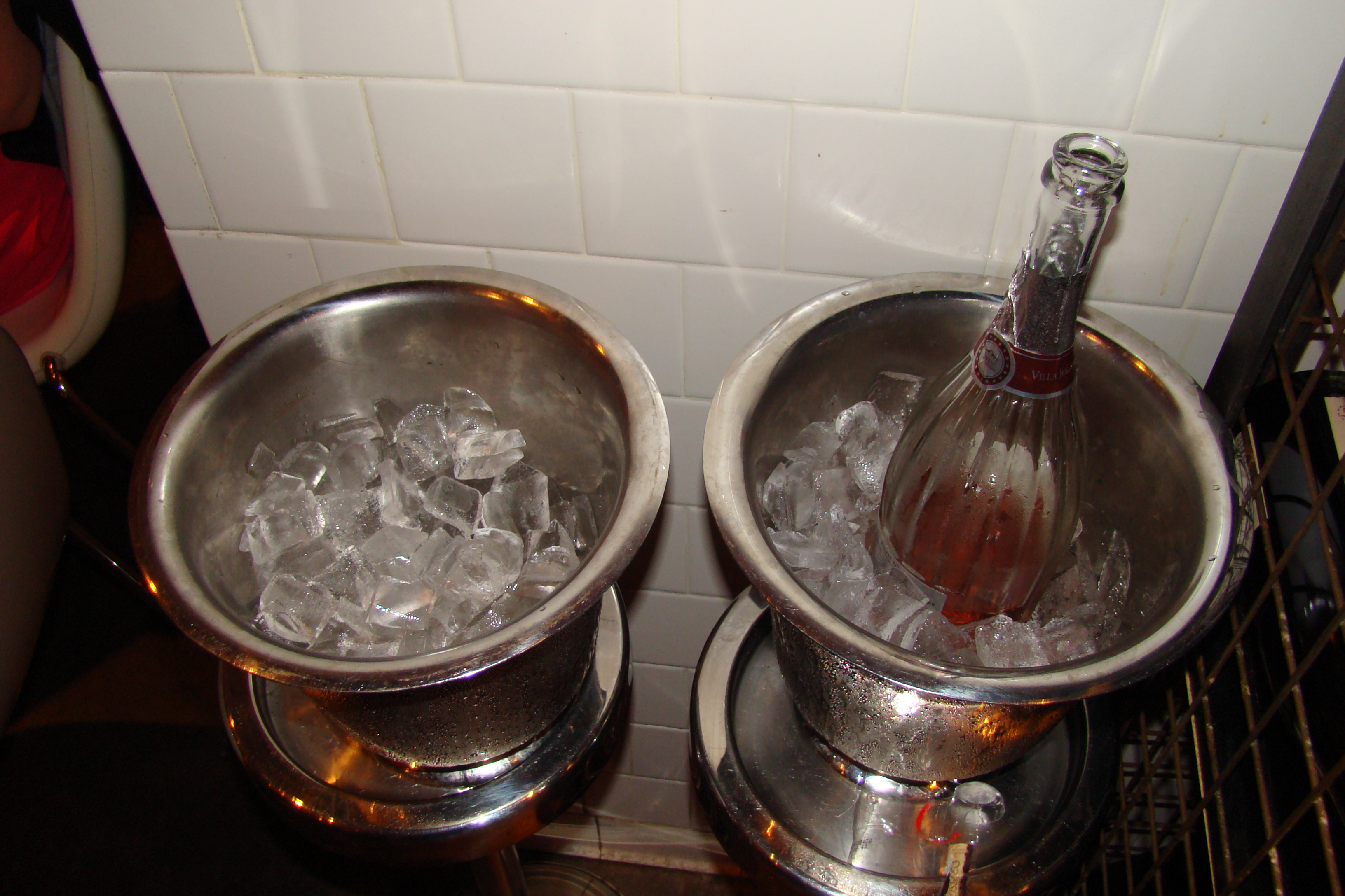 Ice buckets used to chill sparkling wine